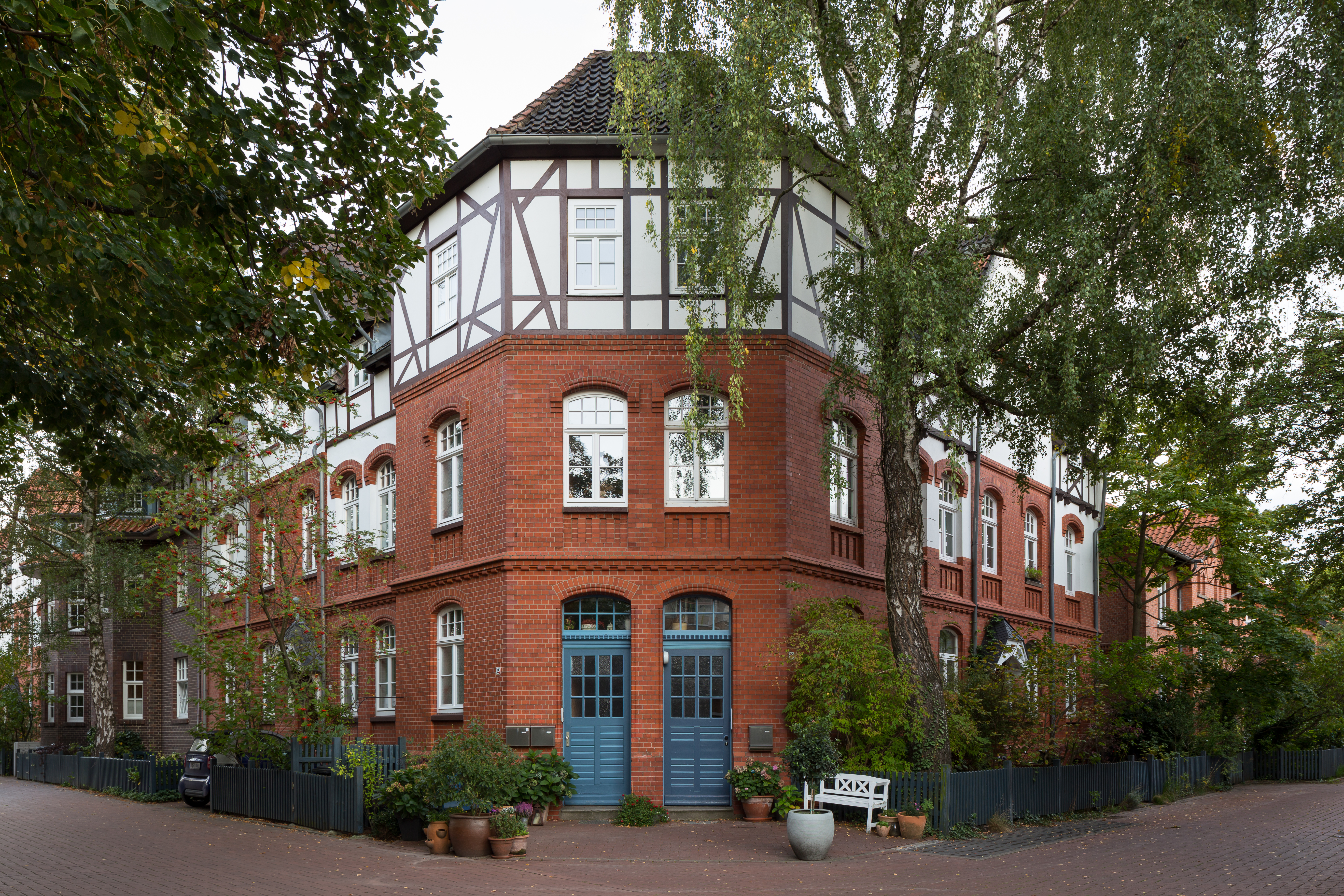 Former workers' settlement Doehrener Jammer (= Doehren misery) located in Doehren quarter of Hannover, Germany. The pictured house is located at Rheinstrasse and Emsstrasse.